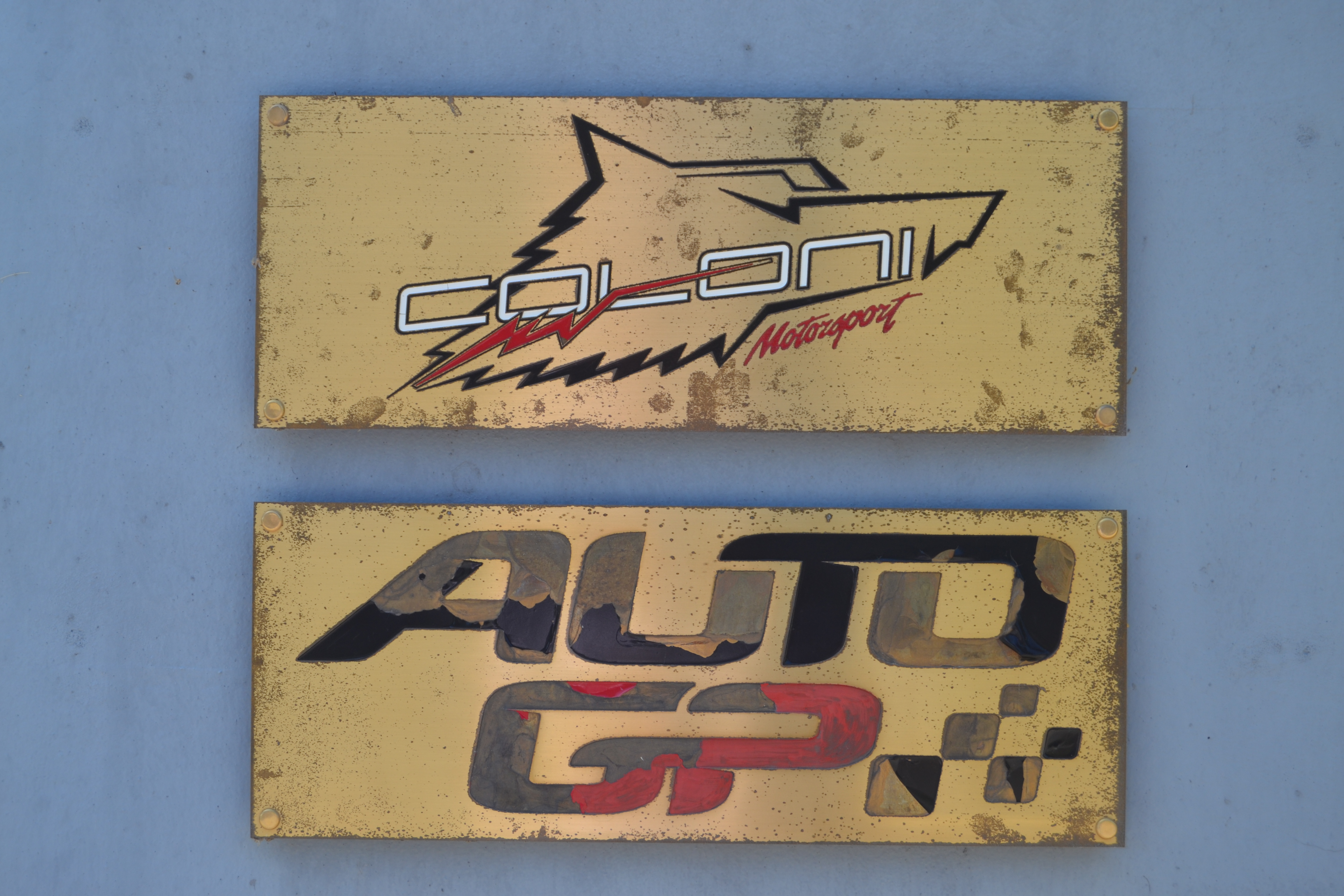 Logo of Coloni Motorsport and AutoGP, seen at the Headquarter of Coloni in Passignano-sul-Trasimeno, Italy